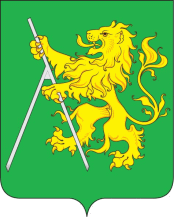 Coat of arms of Lvovskoye, Severskaya Raion, Krasnodar Krai, Russia.